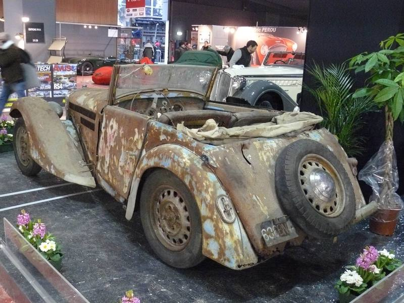 1937 Georges Irat MDU at the 2012 Rétromobile show